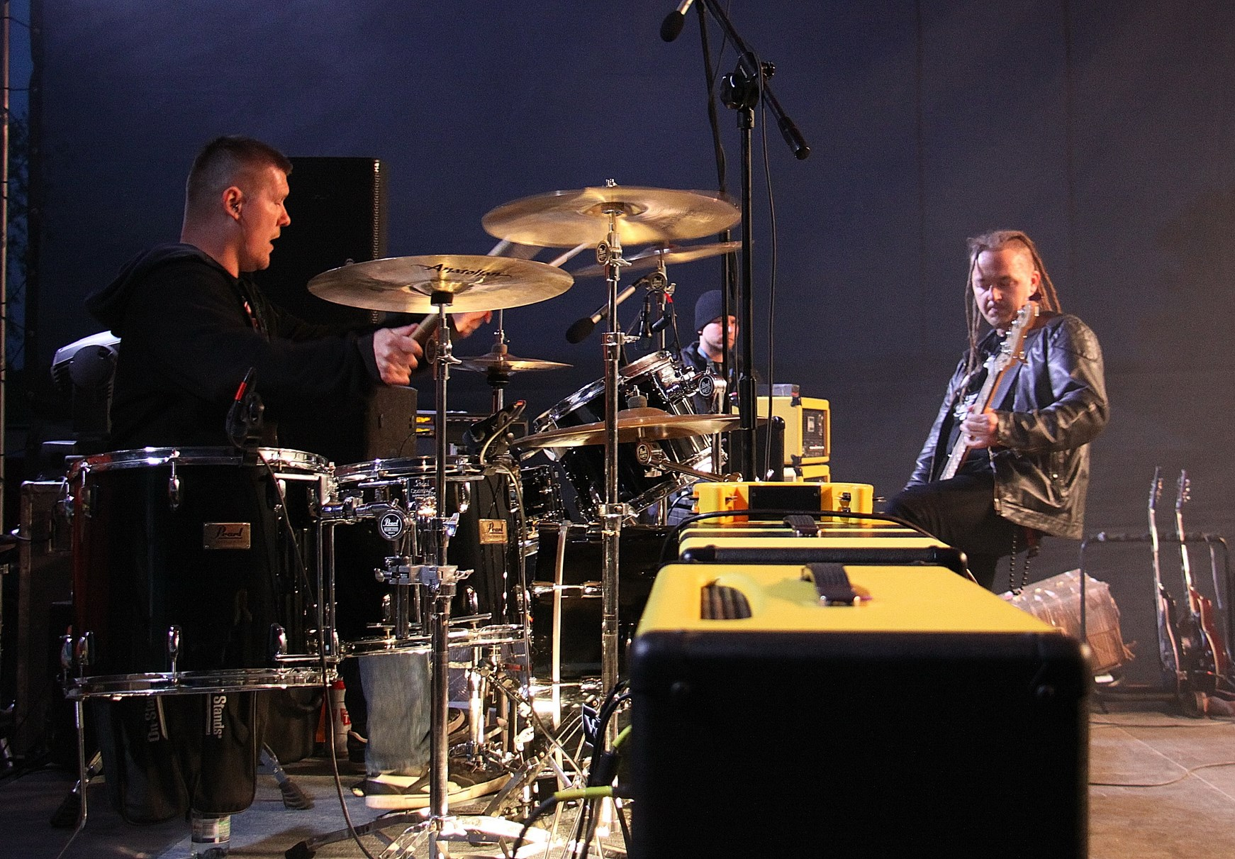 Złe Psy on stage (Michał Bereźnicki & Paweł Nafus)